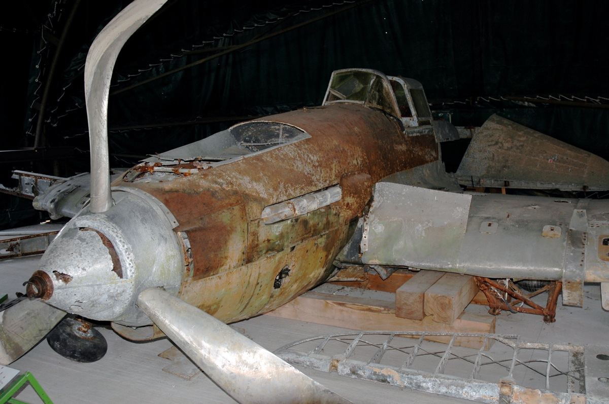 Il-2M3, found in Balaton lake in Hungary (Museum of Hungarian Aviation, Szolnok)